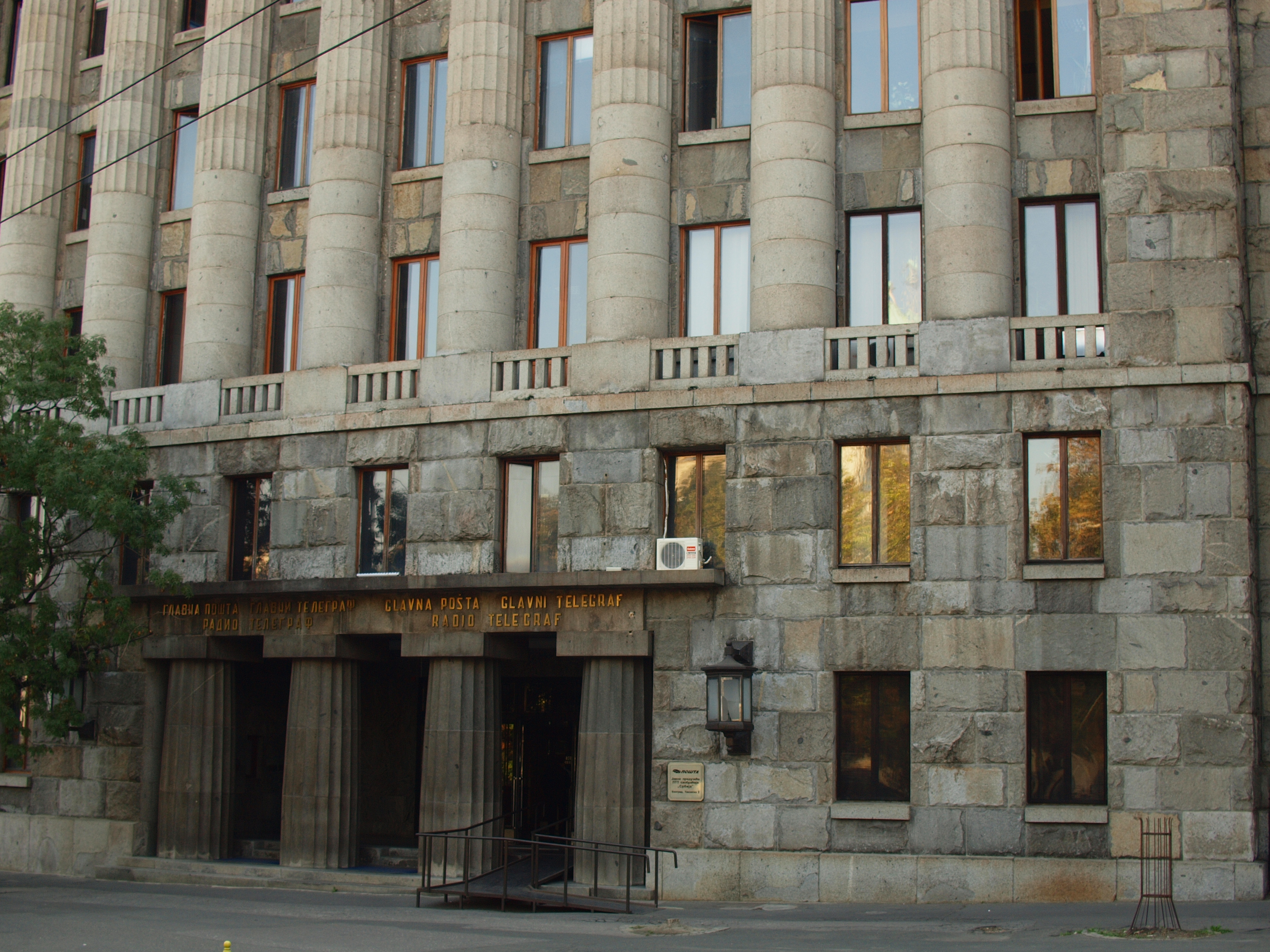 Vasilij Androsov Glavna posta Beograd